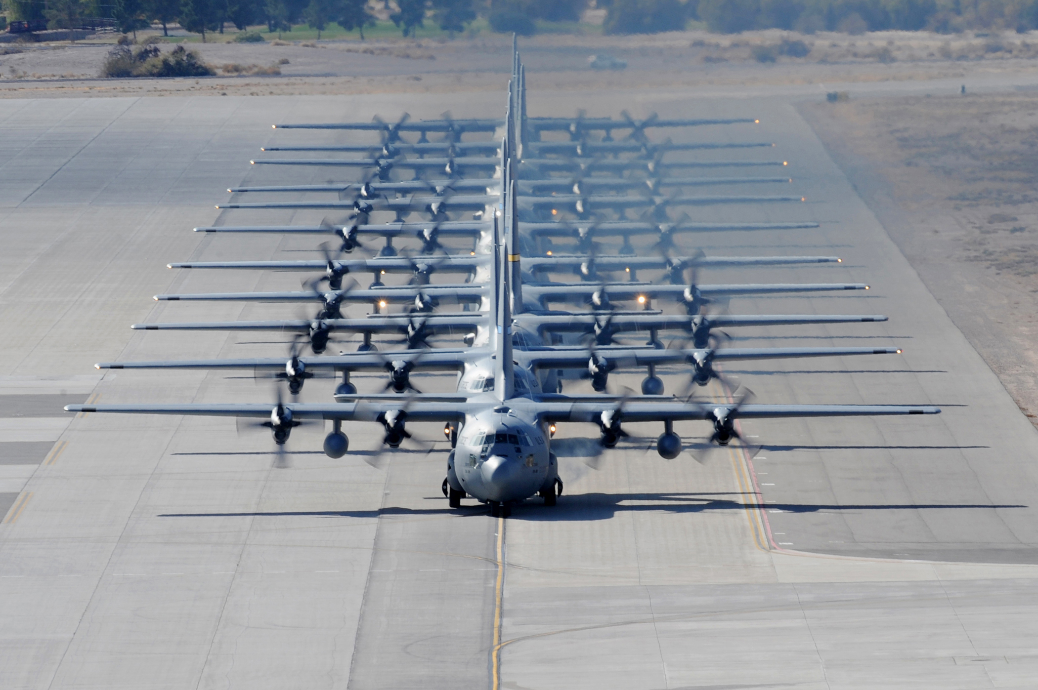 A line of C-130 Hercules taxi during a Mobility Air Forces Exercise on Nov. 18, 2009, at Nellis Air Force Base, Nev. Approximately 40 C-17 Globemaster IIIs and C-130s from Air Force bases around the U. S. flew about 400 Soldiers from Fort Bragg, N.C., for airdrops on the Nevada Test and Training Range.